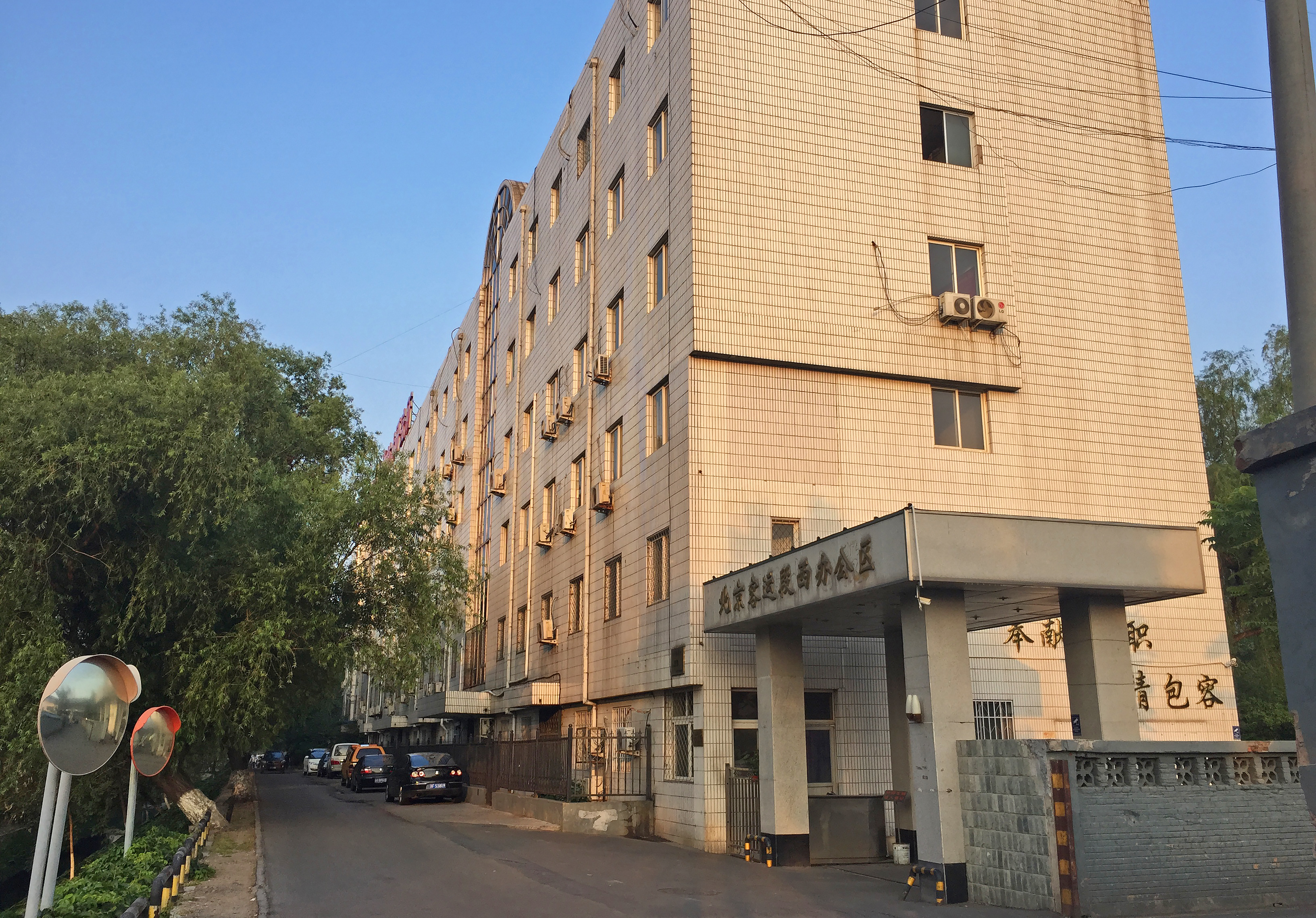 Dedication, duty, enthusiasm, inclusiveness. This is the slogan of Beijing Passenger Transport Department as seen from Jinjiacun.